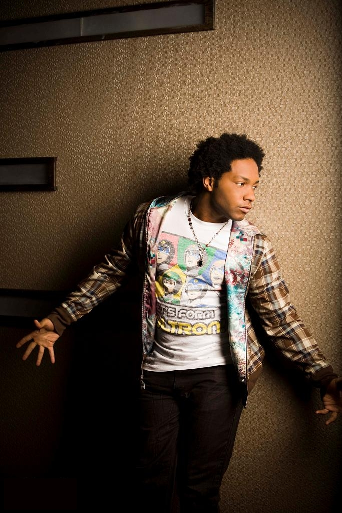 Brandon Rogers, American singer and actor, who was the 12th place finalist on the sixth season of American Idol.